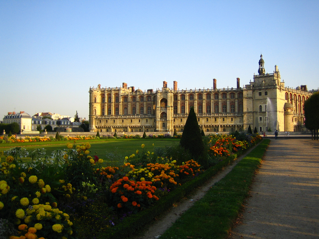 The Château de Saint-Germain-en-Laye, north-western aspectSaint Germain-en-Laye